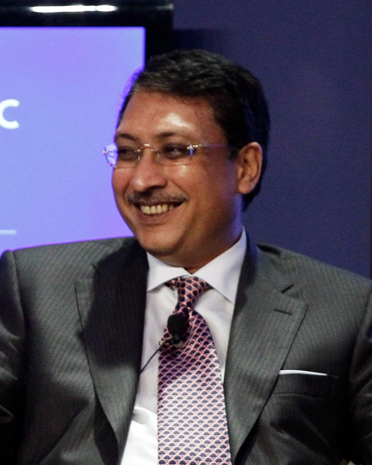 BANGKOK/THAILAND, 31MAY12 - Aloke Lohia, Group Chief Executive Officer, Indorama Ventures, Thailand., in CNBC/supply chains, captured during the World Economic Forum on East Asia in Bangkok, Thailand, May 31, 2012. Copyright World Economic Forum ( Photo by Sikarin Thanachaiary